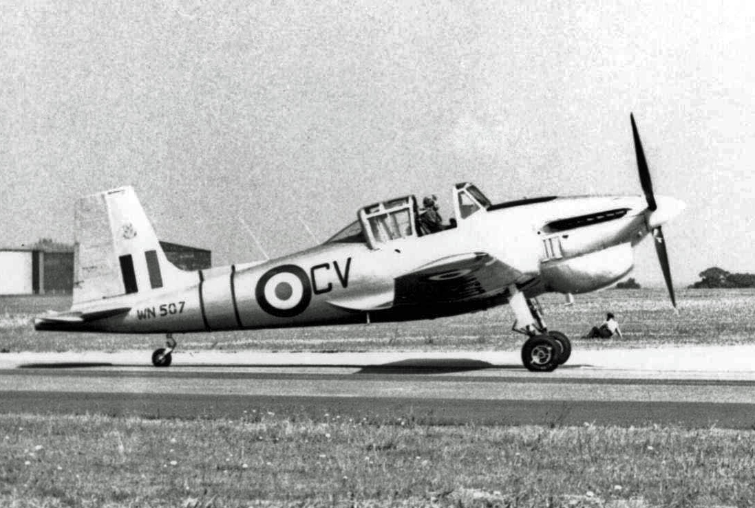 Boulton Paul Balliol T.2 of the Royal Air Force College